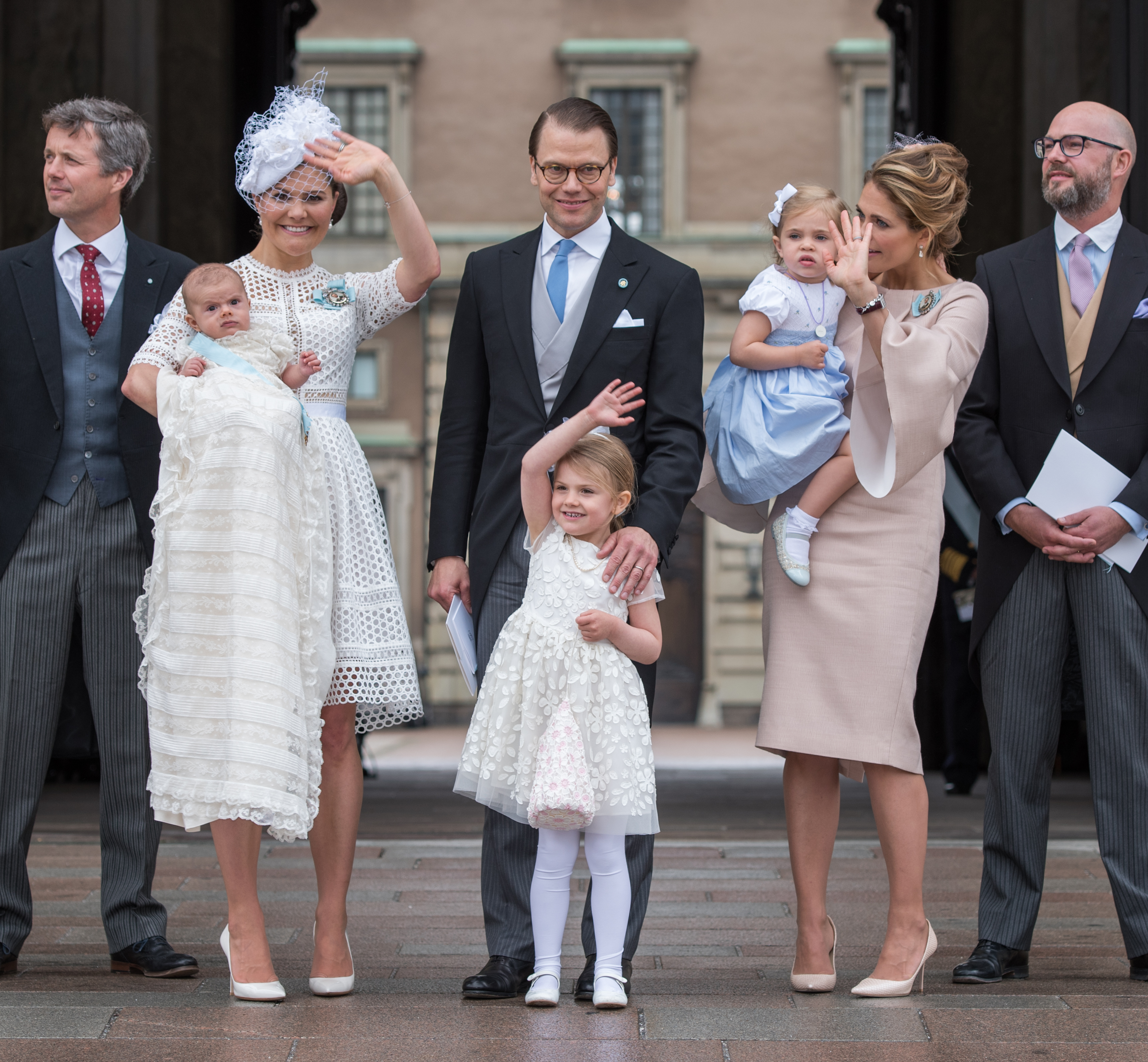 Crown Princess Victoria of Sweden with children in 2016